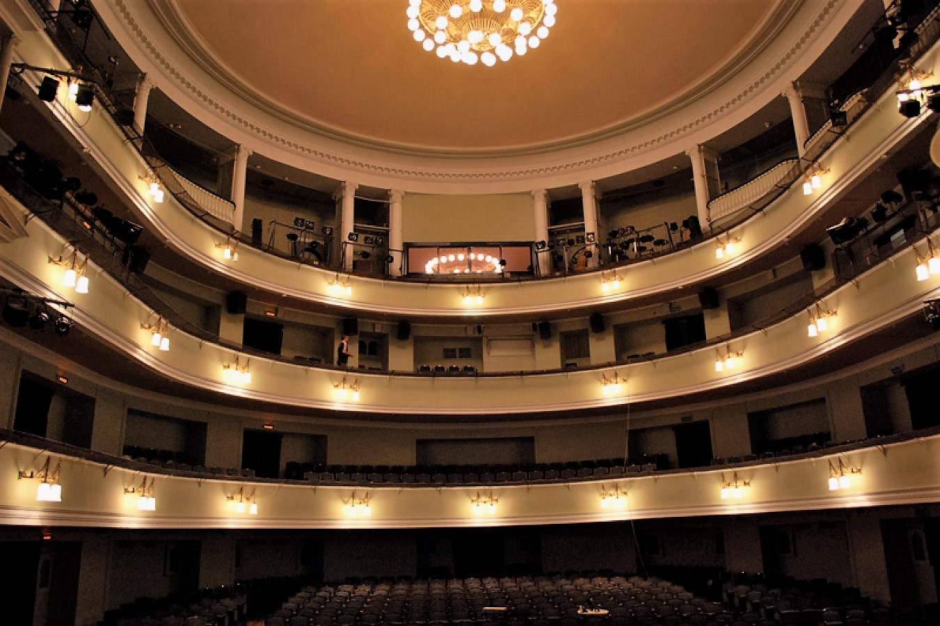 Зрительный зал Российского молодежного театра